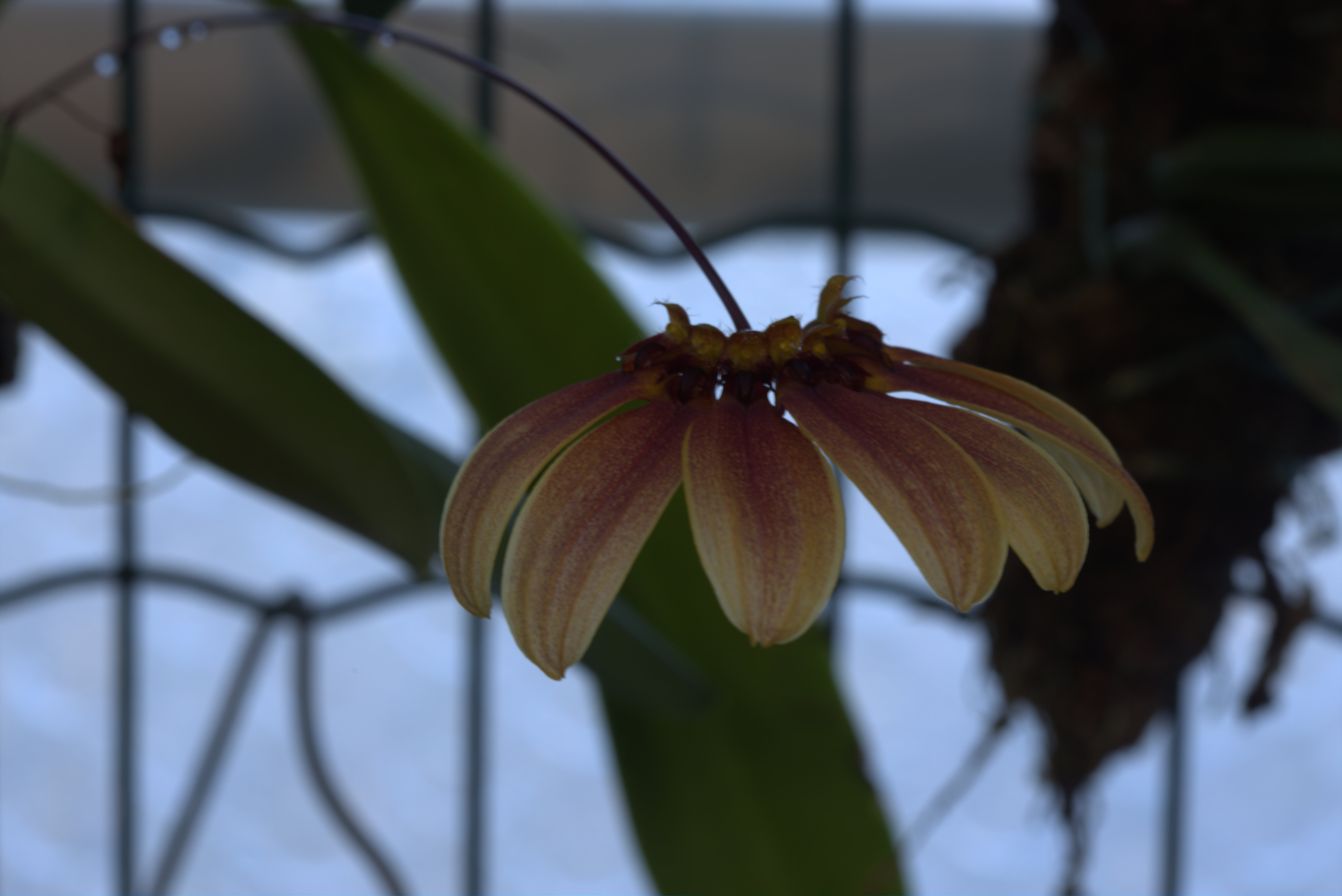 Bulbophyllum mastersianum at Gotenburg Botanical Garden in 2015. Plant id: 2015-827 p G -- Karge